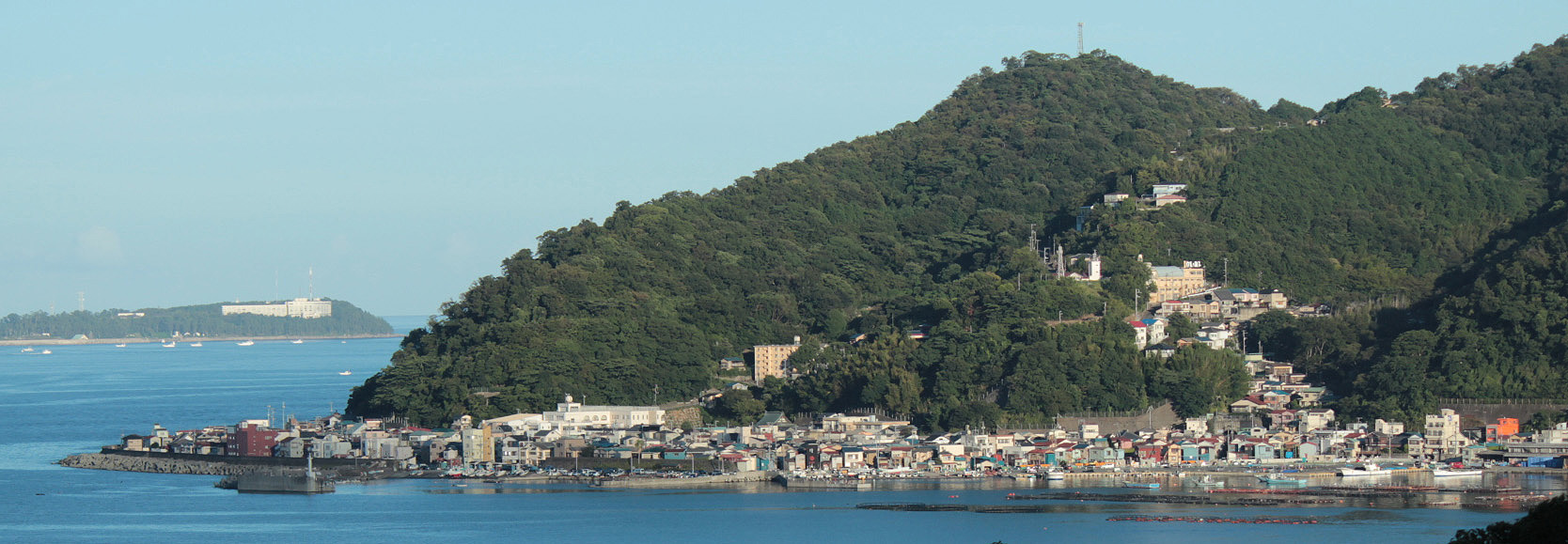 Ajiro, Atami, Shizuoka Prefecture, Japan.